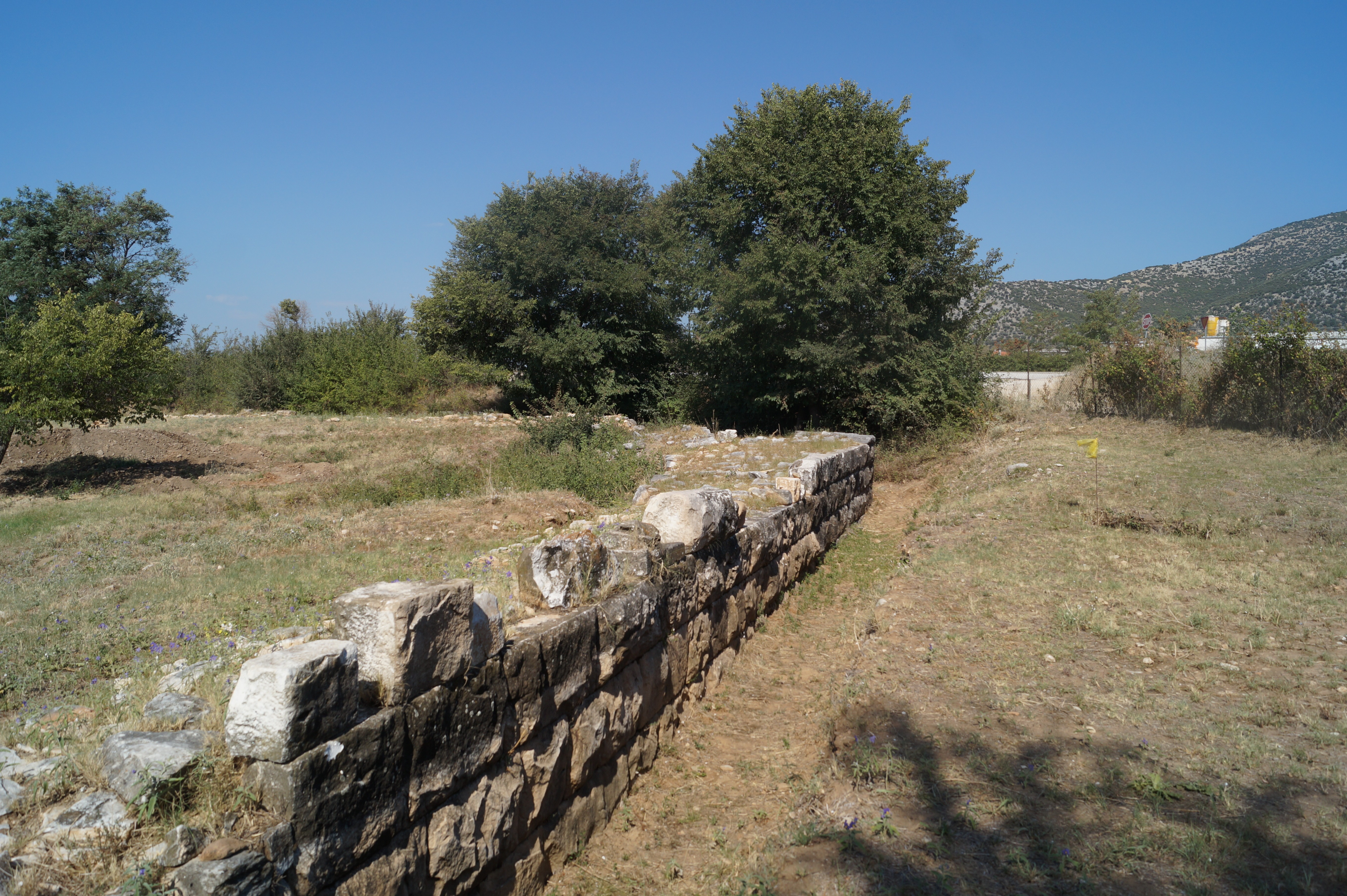 Pontolivado, Makedonia, Greece: Archaeological site of Pistyros. North-east corner of city wall.